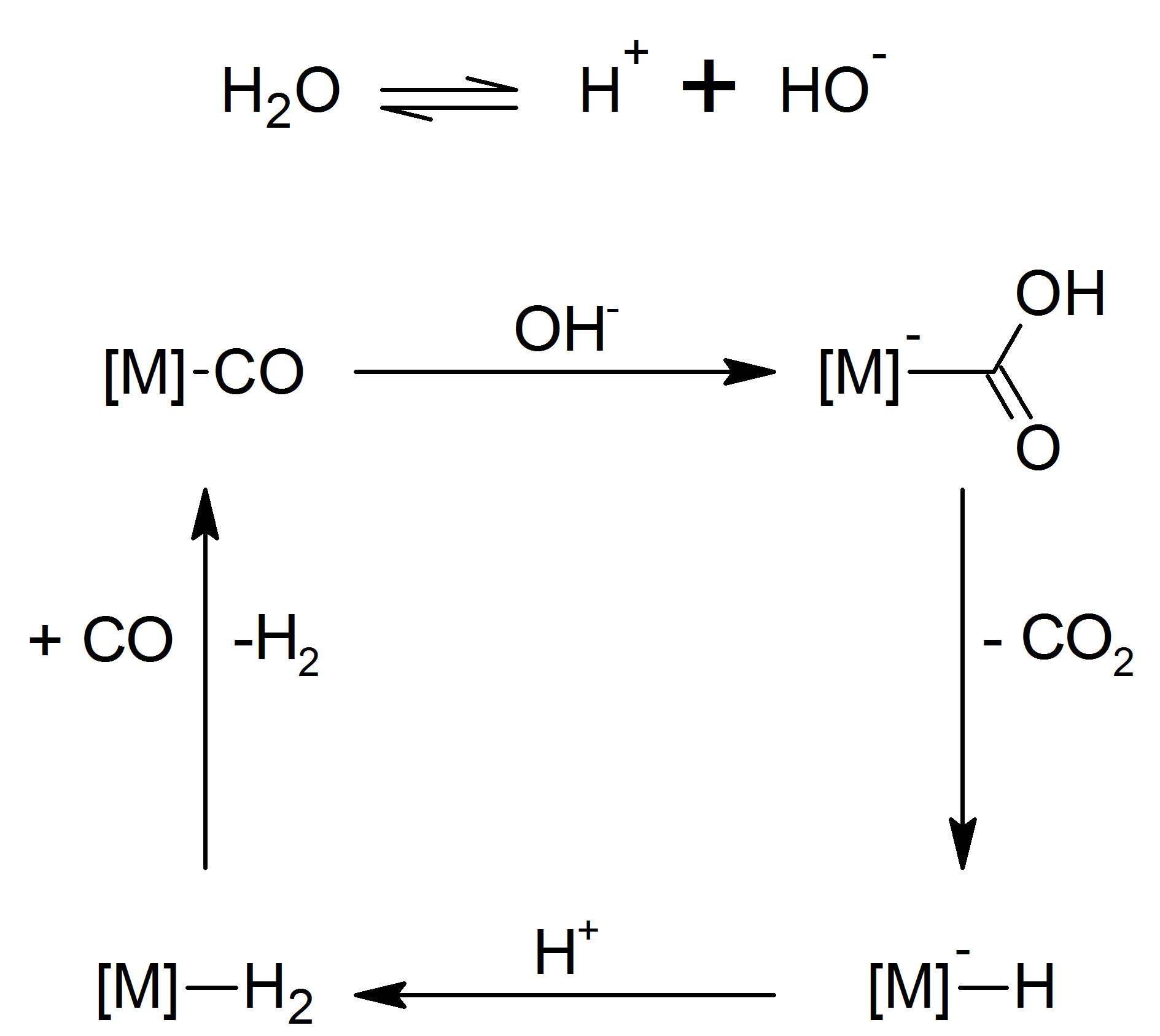 Water gas shift reaction, adapted from "12. Applications of Organometallic Chemistry" in (2005) The Organometallic Chemistry of the Transition Metals (4th ed.), pp. 360-361